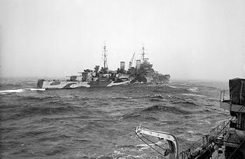 IWM caption : ON BOARD THE DESTROYER HMS FURY OFF ICELAND, 1942. The cruiser HMS TRINIDAD as seen from HMS FURY in the North Atlantic during an Arctic convoy escort patrol. HMS TRINIDAD is dazzle-painted.